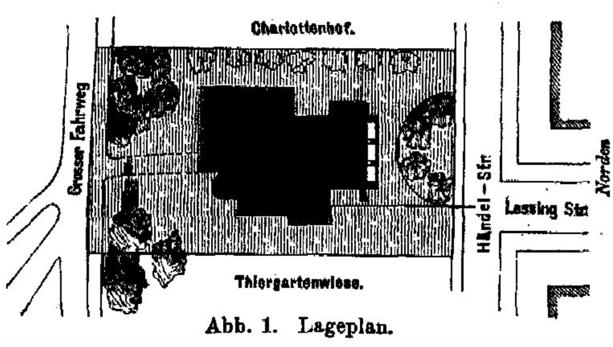 First Kaiser-Friedrich-Gedächtniskirche (Emperor Friedrich Memorial Church) Berlin - Tiergarten, plan by Johannes Vollmer 1892. The map shows the available building site and projected church building on the northern edge of the Tiergarten (North is to the right). The project planning required positioning of the church tower on the North-South axis of the Lessingstrasse. The church was built according to the plan in 1893-1895